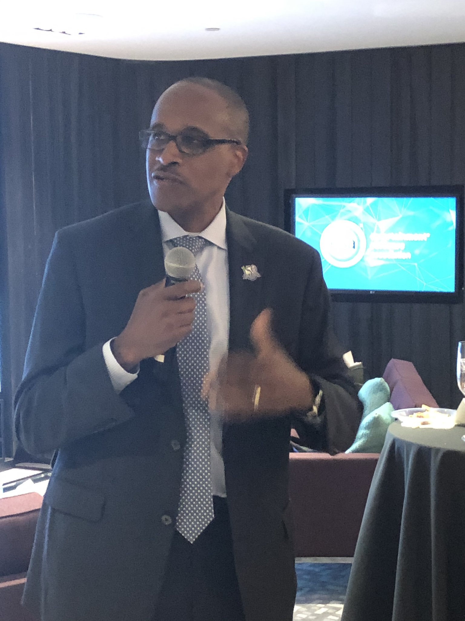 The HBCU STEAM Day Reception is currently in full swing. I will like to thank @SenKamalaHarris , @RepMarkWalker , @RepFrenchHill , @SenThomTillis , @RepDavidEPrice ,and @HipHopPrez for their remarks and support. # HBCUSTEAMDAY2020